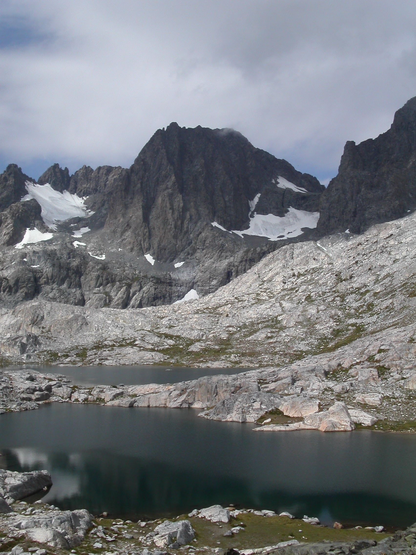 Mount Ritter, in the Sierra Nevada, California